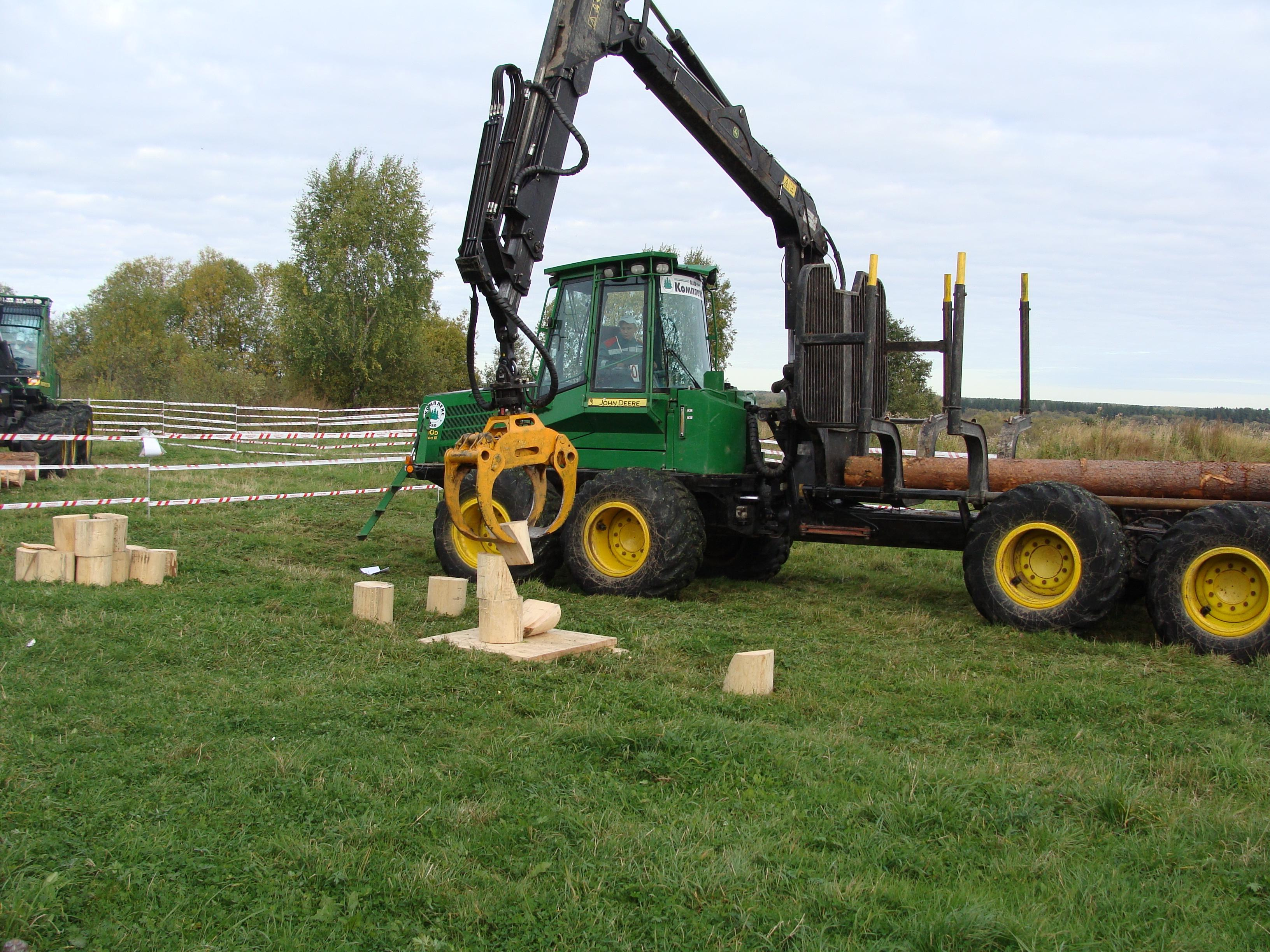 John Deere 1100D forwarder in Koryazhma, Russia